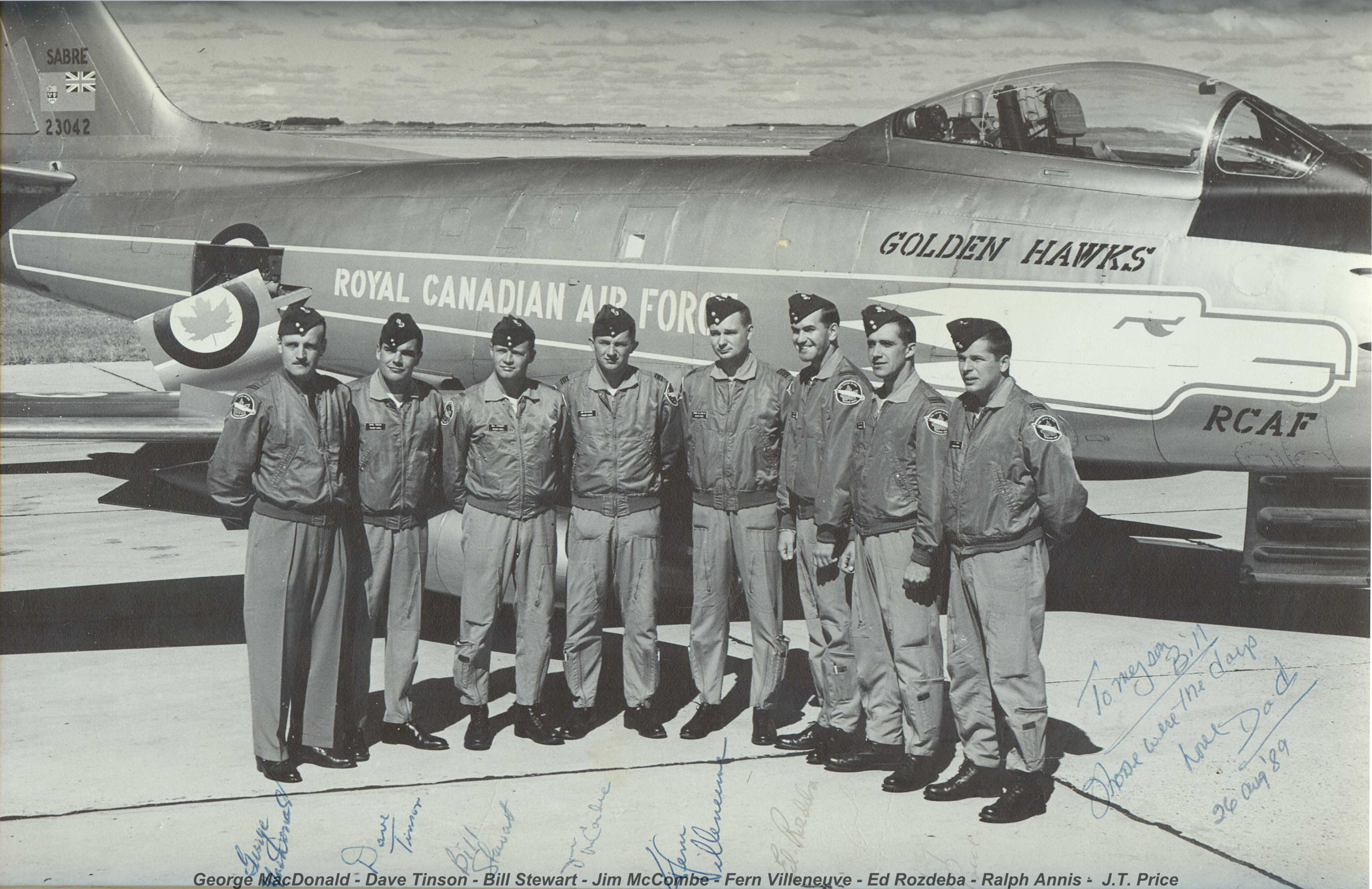 This is from my personal collection, an official team photo originally from the Canadian DND of the team of Golden Hawks pilots, one of a very small number with signatures from each member of the team.